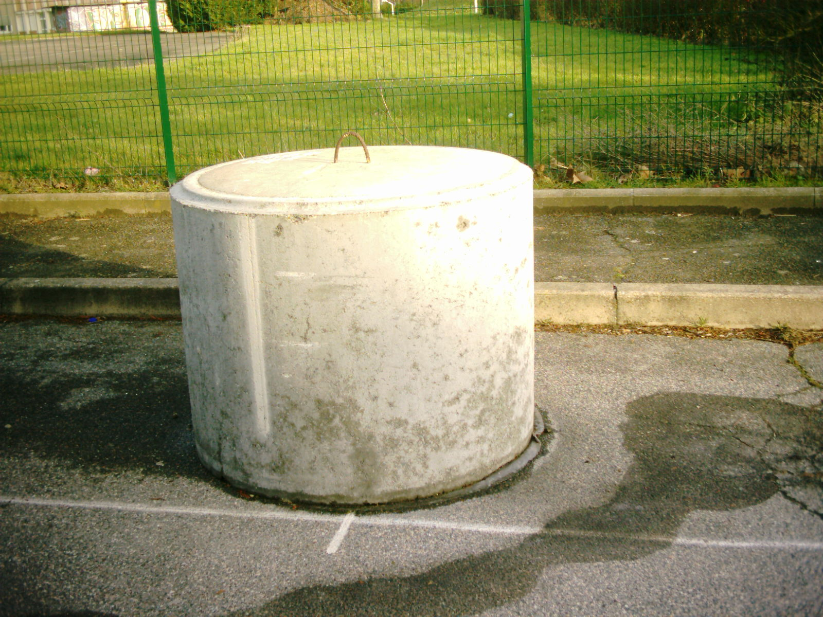 A concrete block used to bloc cars.